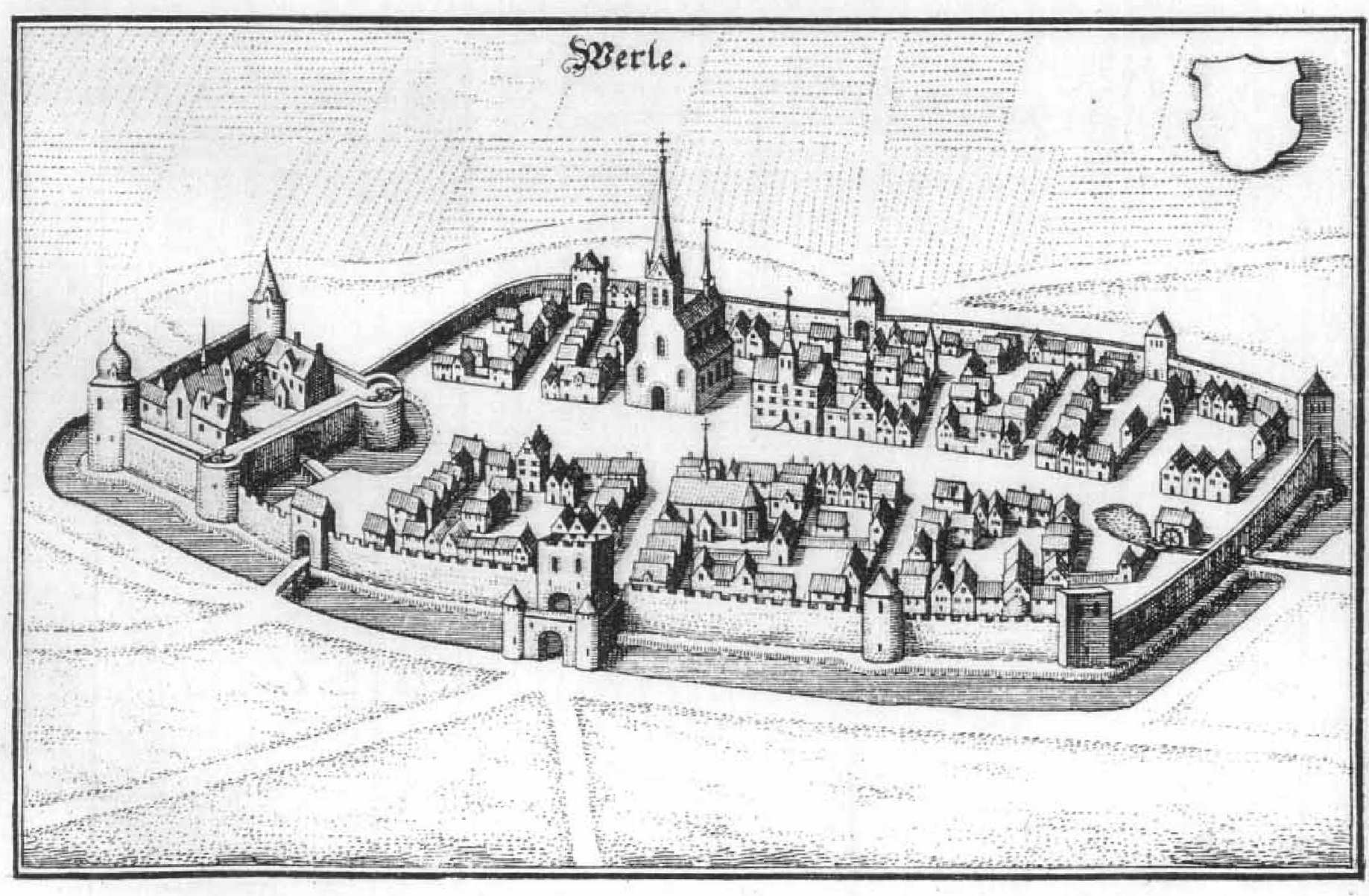 This is a scan of the historical document:Publication date 1647publication_date QS:P577,+1647-00-00T00:00:00Z/9Source